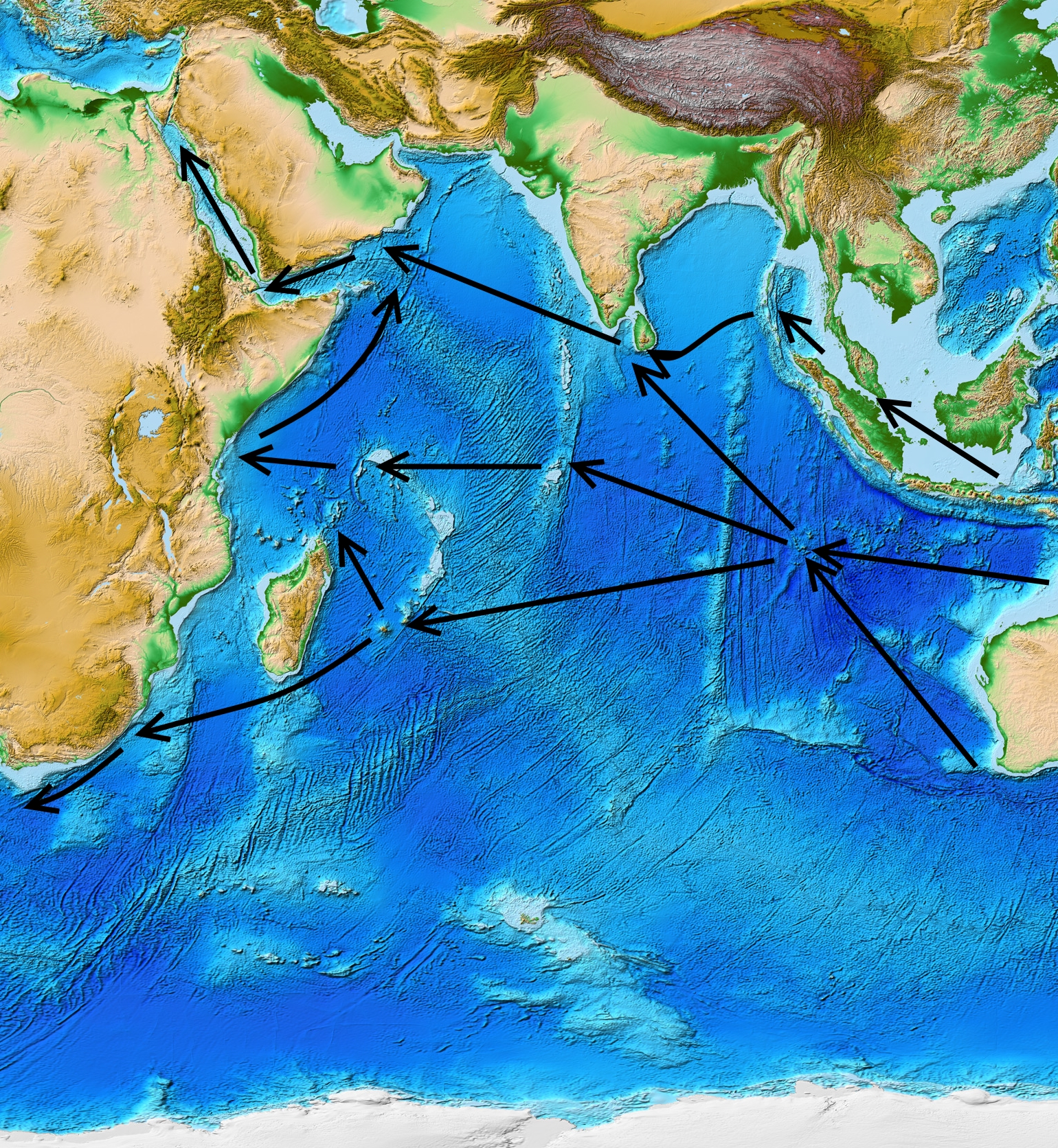 Preferred sailing routes across the Indian Ocean, direction west